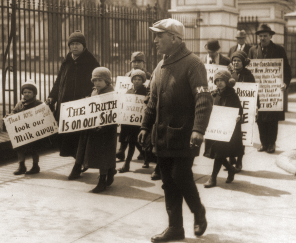 Children of strikers in the 1926 Passaic Textile Strike used to picket outside the White House, Washington, DC.